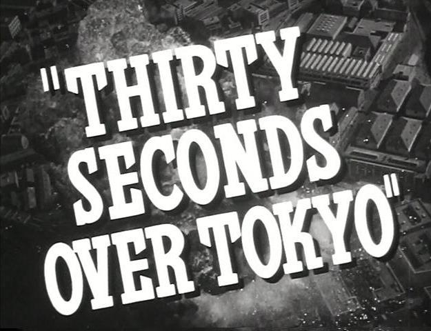 The Thirty Seconds Over Tokyo trailer title.